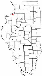 Category:Illinois city locator maps